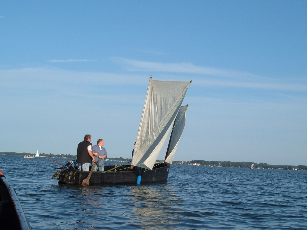 Torfkahn, a typical fishing boat on Steinhuder Meer / Germany